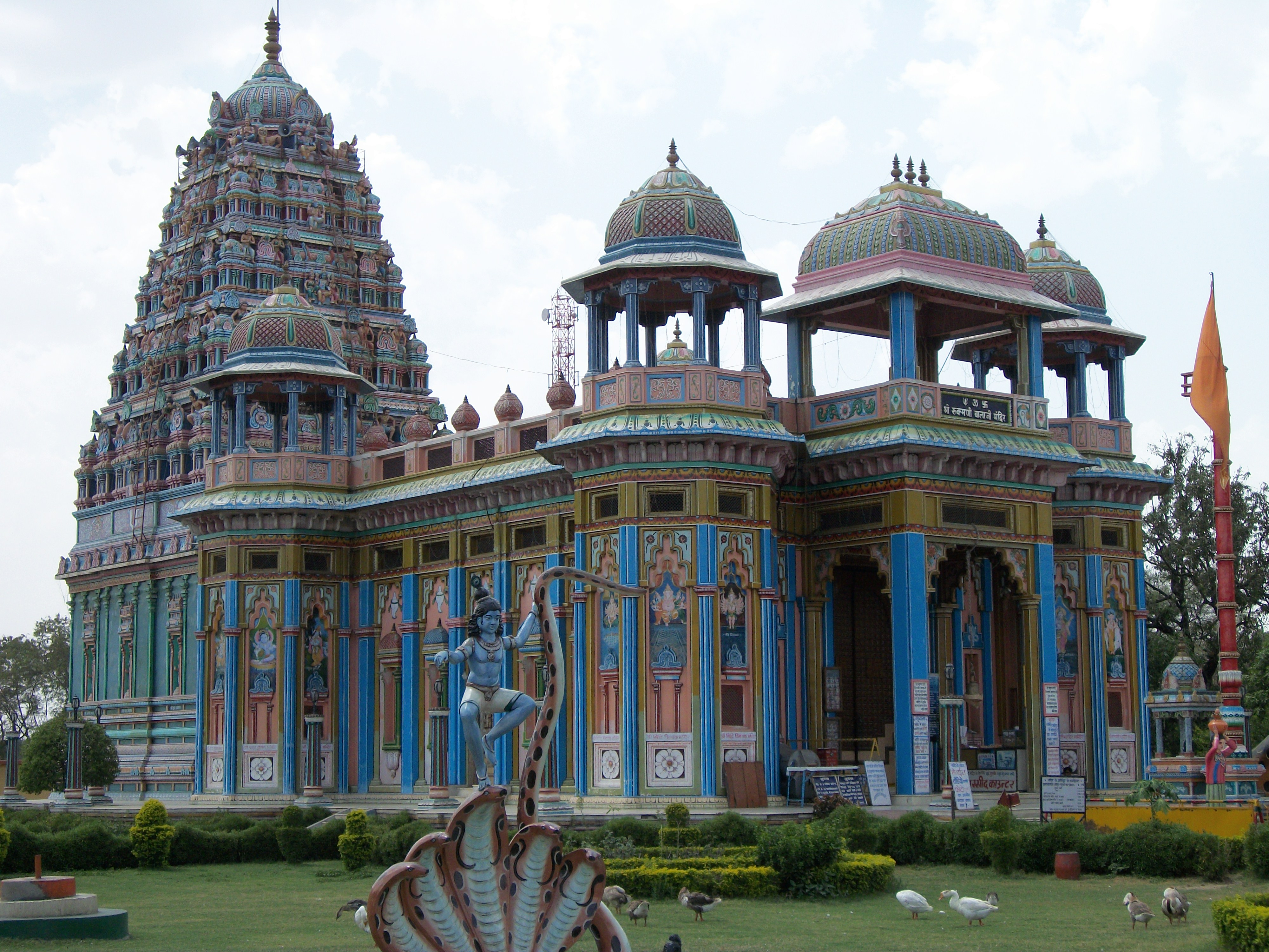 The colourful temple of Lord balaji in betul distt. m.p. india